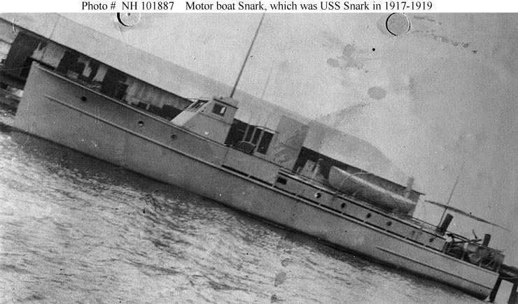 The private motorboat Snark at the time of her completion, prior to her United States Navy service as the patrol vessel .